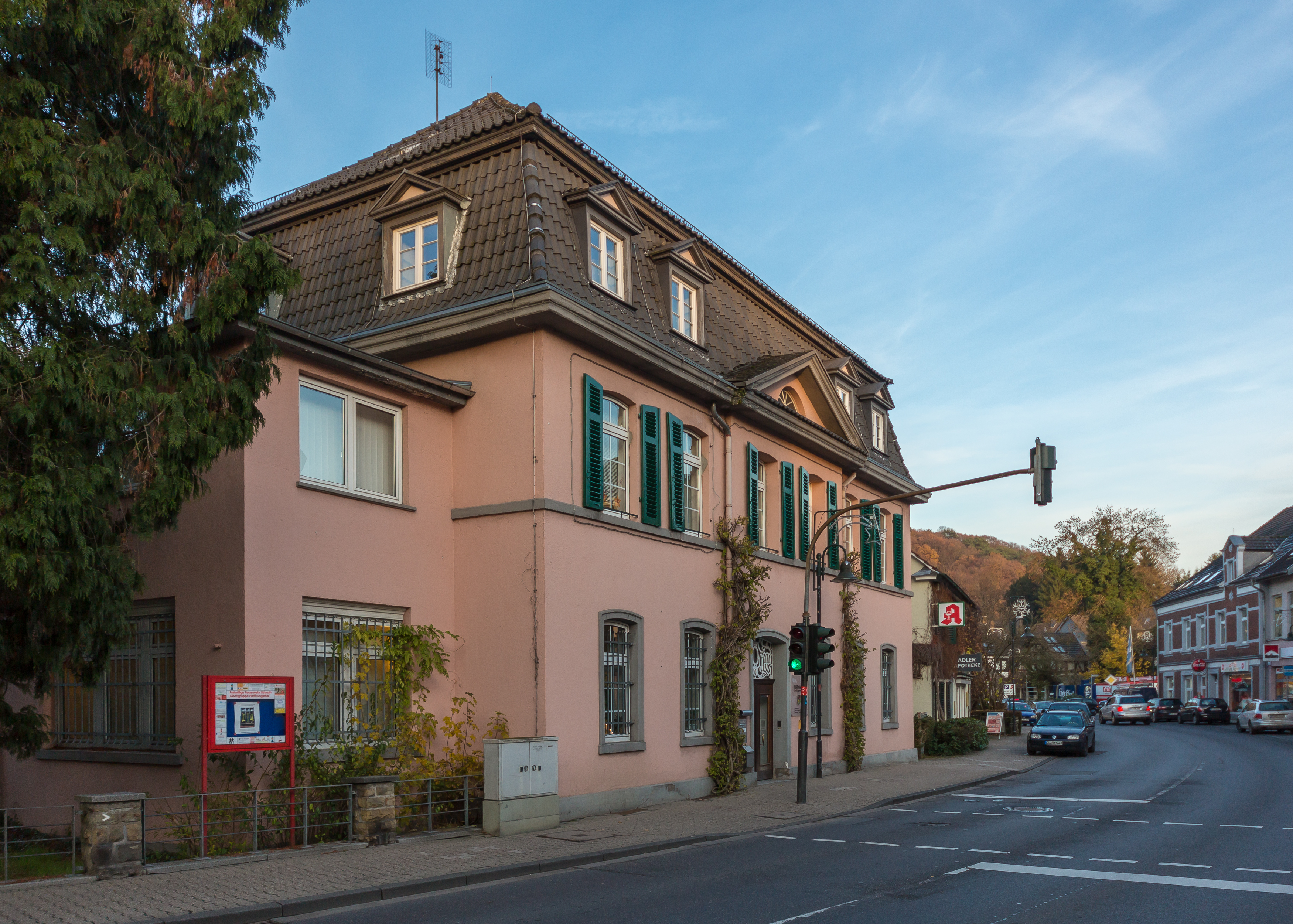 Rösrath, North Rhine-Westphalia, Germany: Old townshall of Rösrath in Rösrath-Hoffnungsthal, listed as cultural heritage monument No. 3